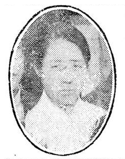 Heo Jong-suk, Korean independence movement and feminists